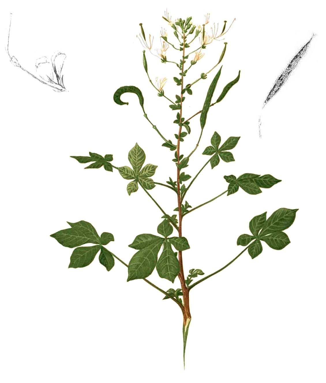 Plate from book